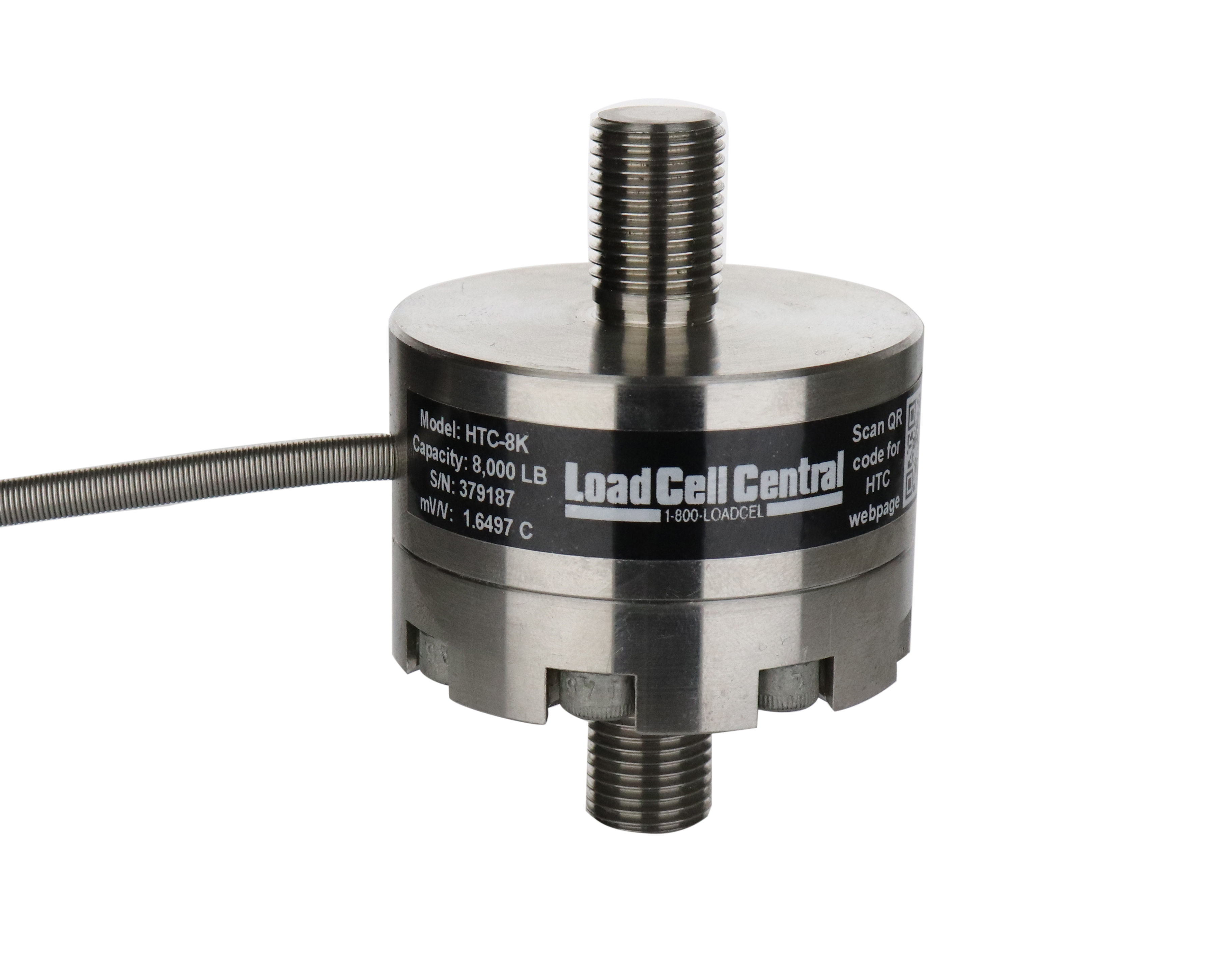 HTC dual stud load cell measures both tension and compression